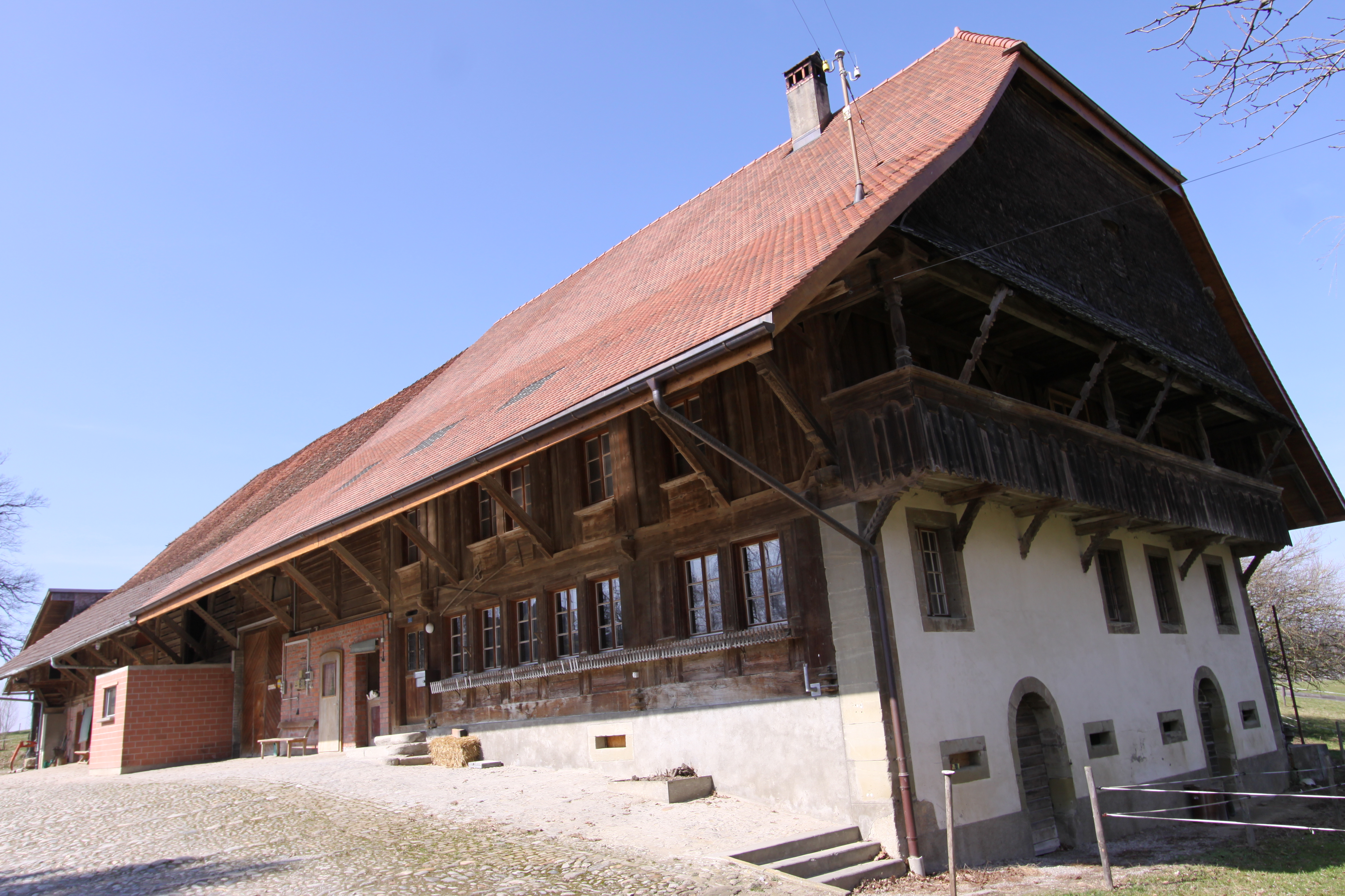 Farmhouse of Joseph von der Weid, Römerswil 5, St. Ursen